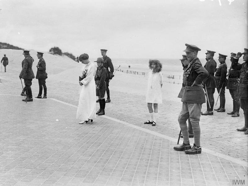 The Official Visits To the Western Front, 1914-1918 Albert I (wearing the uniform of a colonel of the 5th Dragoon Guards), King of Belgians, and Elisabeth, Queen of Belgians, with their two sons, watching the presentation of decorations to about 30 Belgian officers by King George V at La Panne, 13th August 1916.